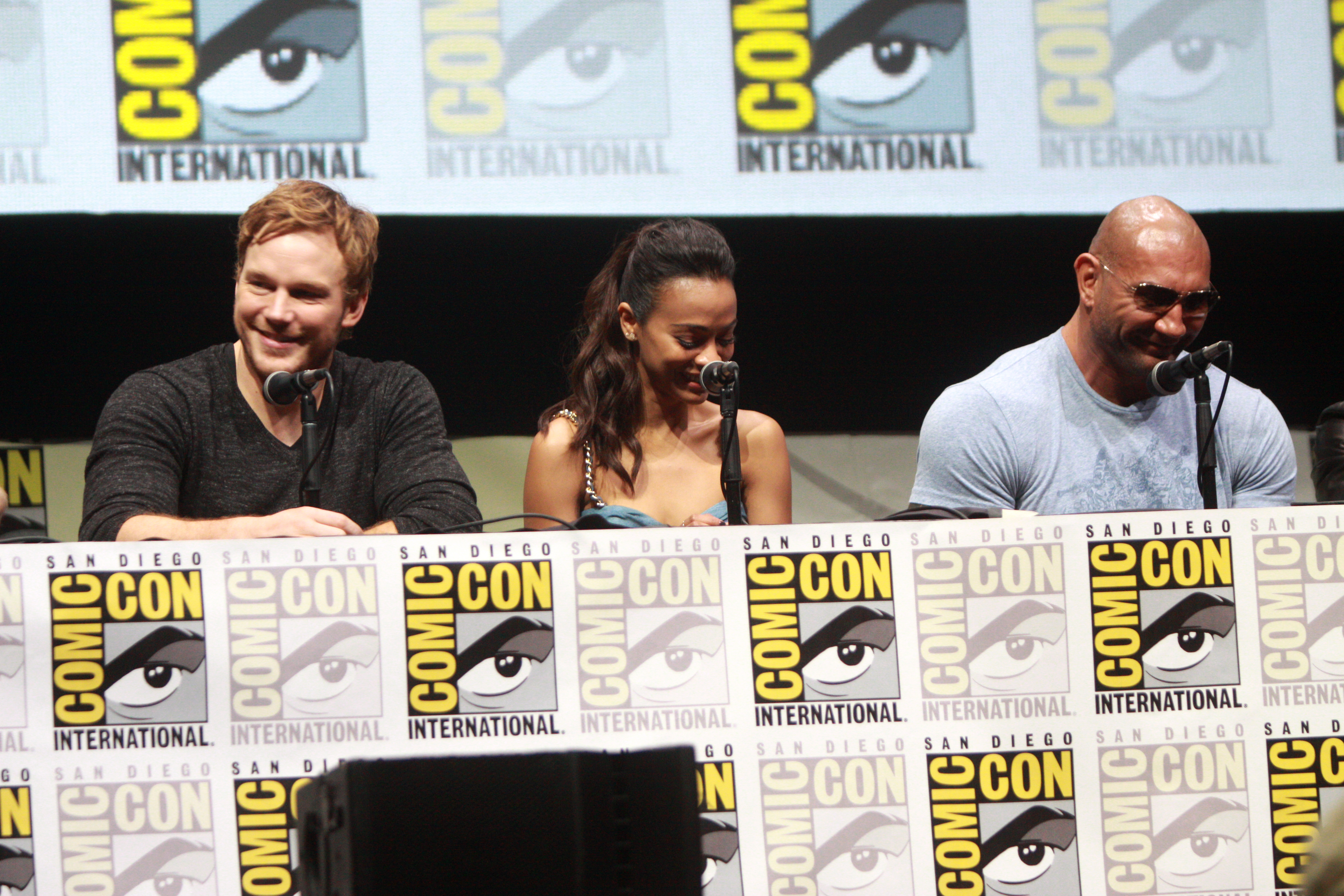 Chris Pratt, Zoe Saldana and Dave Bautista speaking at the 2013 San Diego Comic Con International, for "Guardians of the Galaxy", at the San Diego Convention Center in San Diego, California.